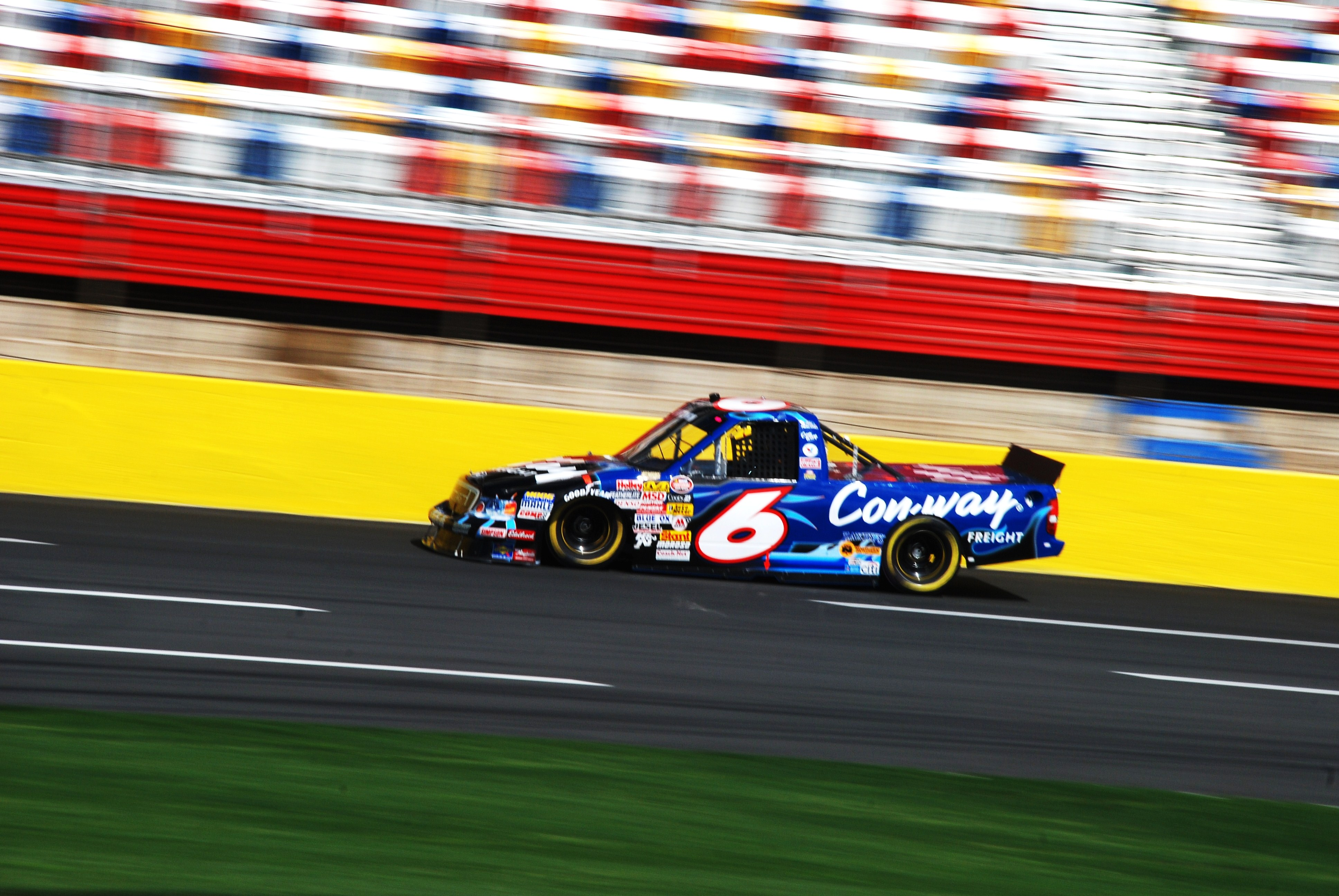 Trucks at the All Star weekend, Lowes Motor Speedway.